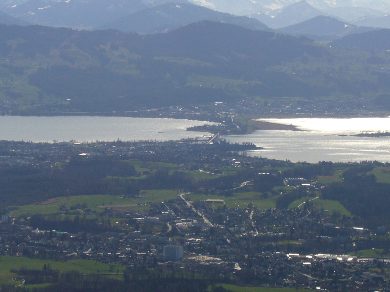 Seedamm bei Rapperswil-Jona, cantons of St. Gallen, Schwyz and Zurich, Switzerland. Picture taken from the top of the mountain Bachtel by Peter Berger. March 4, 2007.